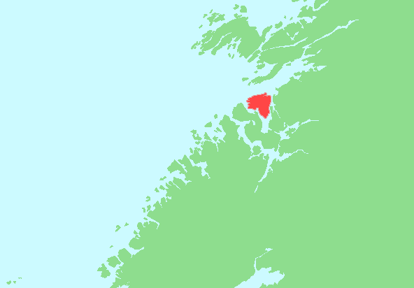 Locator map of Jøa, Nord-Trøndelag, Norway